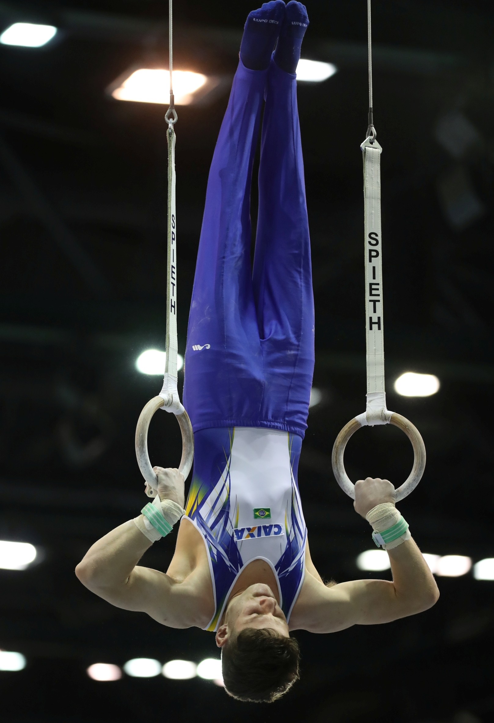 Still rings exercise during the boys' apparatus finals at the 1st FIG Artistic Gymnastics Junior World Championships on 29 June 2019 in Győr, Hungary. Depicted: Diogo Soares.